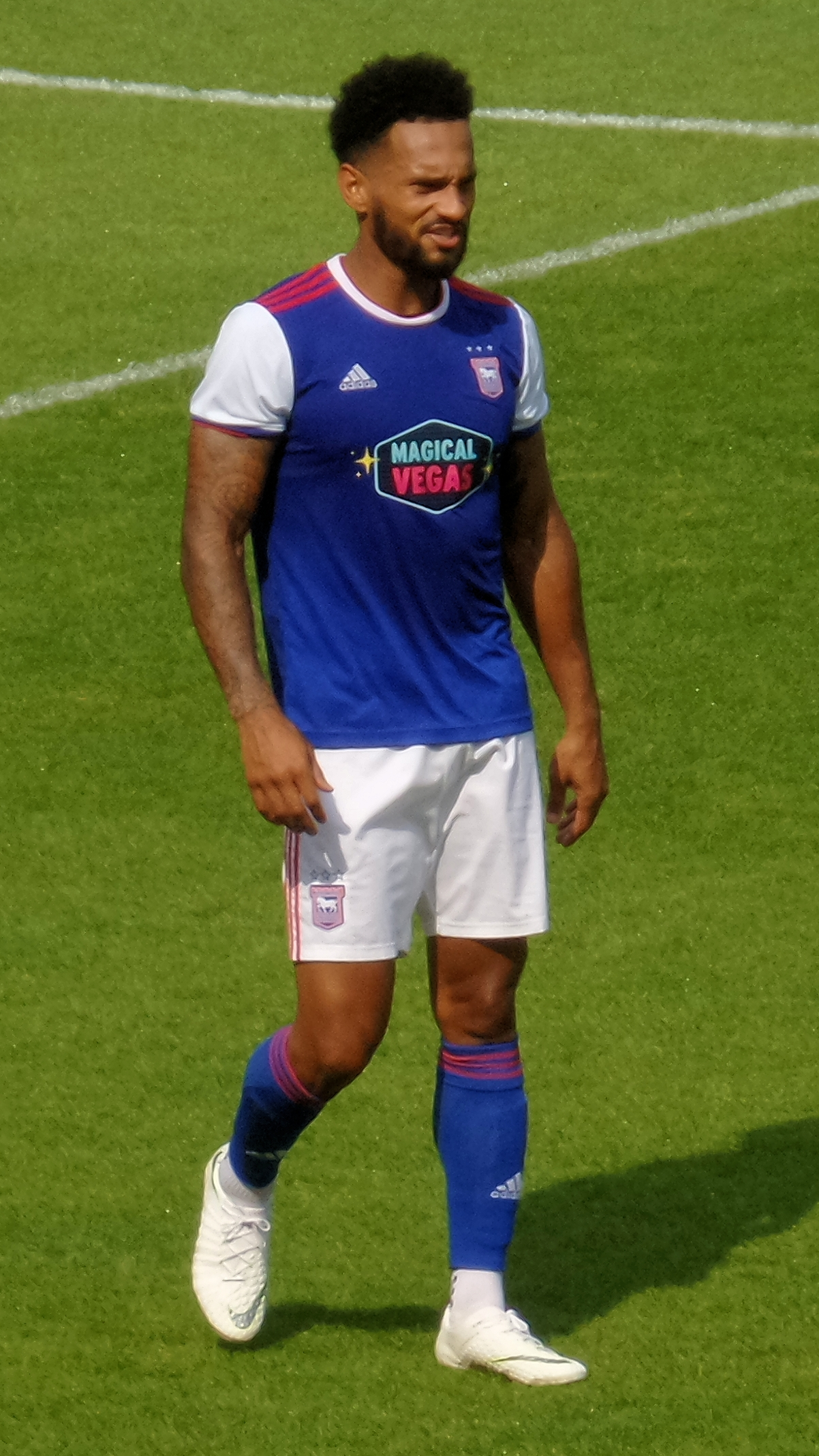 Jordan Roberts playing for Ipswich Town at Barnet on 21 July 2018